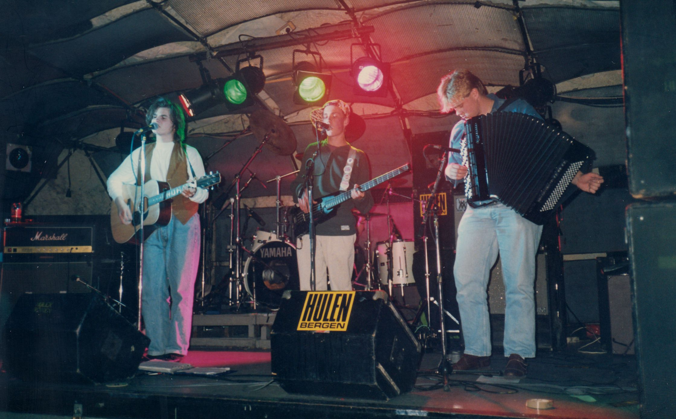 Early photo of the norwegian band Poor Rich Ones